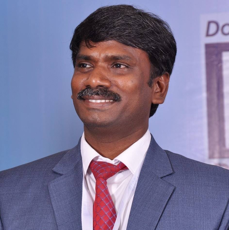 Mannem Madhusudana Rao in DICCI Conference in Vijayawada